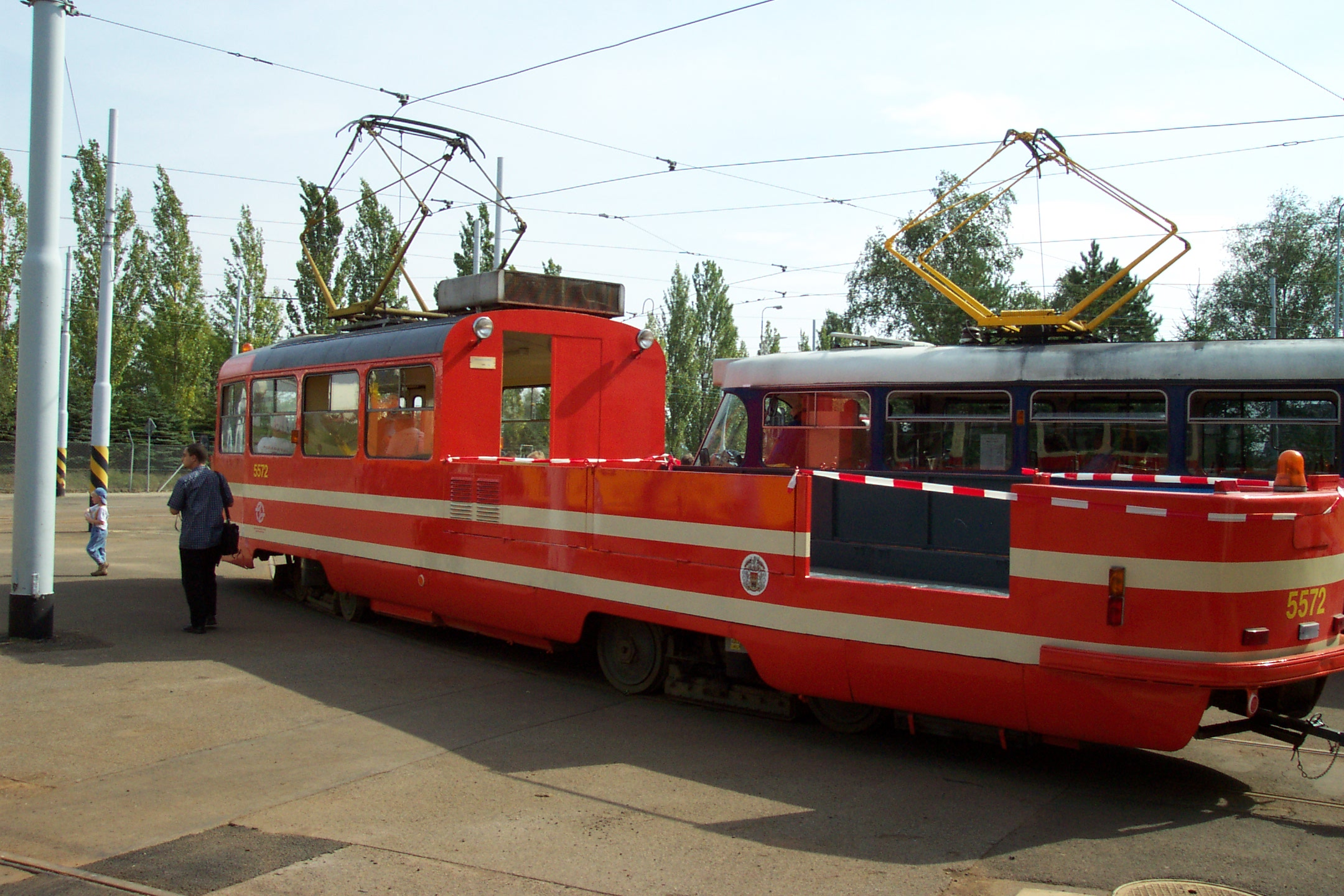 Tram type T3, specially rebuild as a service and cargo tram, used not commercially